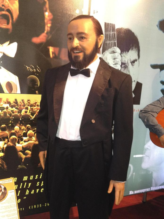 The statue of Luciano Pavarotti in Eilat IMAX.